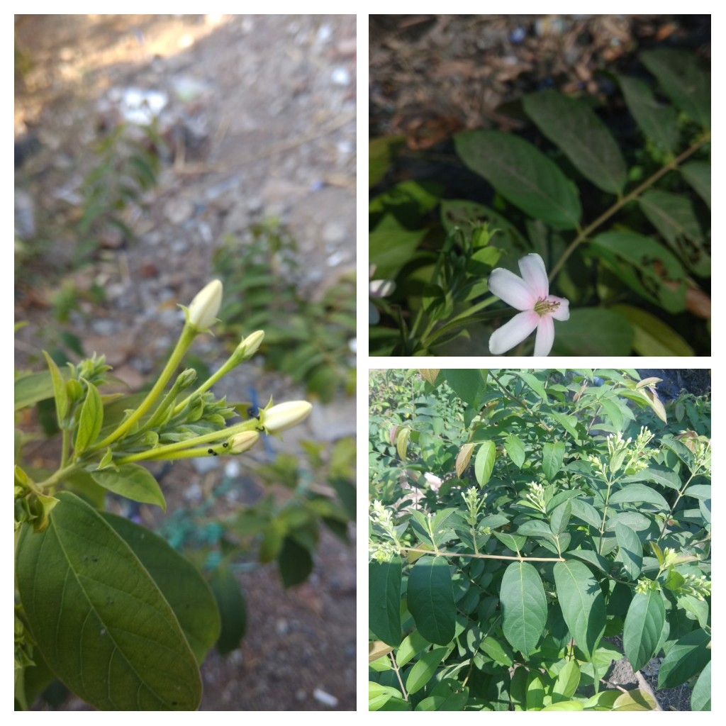 Combretum indicum